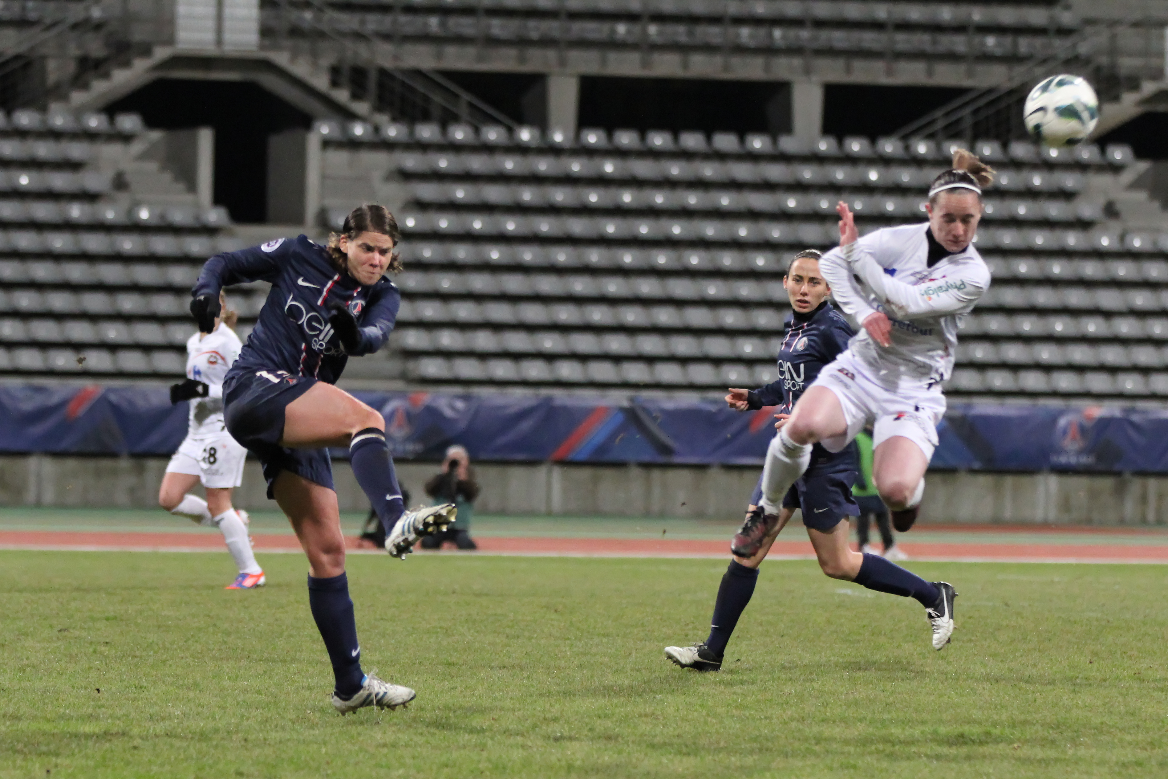 PSG-Juvisy, december 9th, 2012. Annike Krahn (PSG).